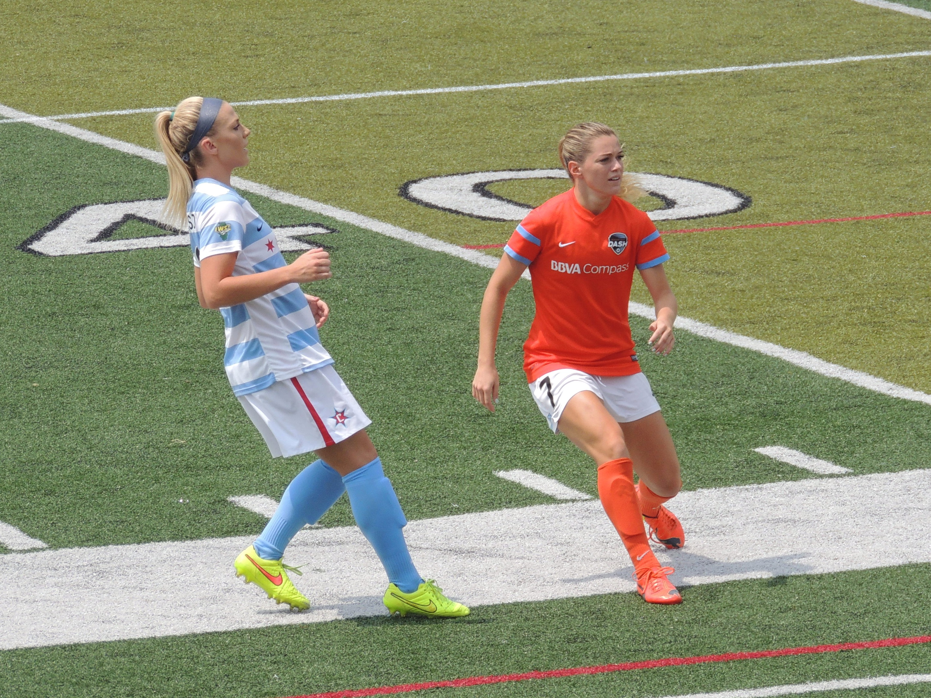 July 26, 2014; Julie Johnston and Kealia Ohai in Chicago Red Stars vs Houston Dash